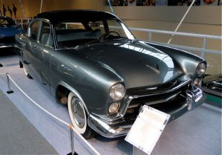 Volvo Philip, prototype car from the 1950s with an V8 engine. Volvo Museum Arendal